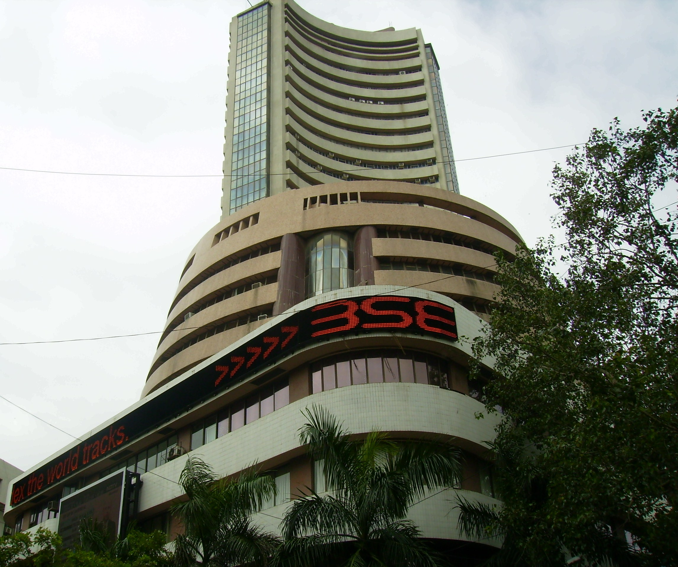 The Bombay Stock Exchange building in Mumbai, India